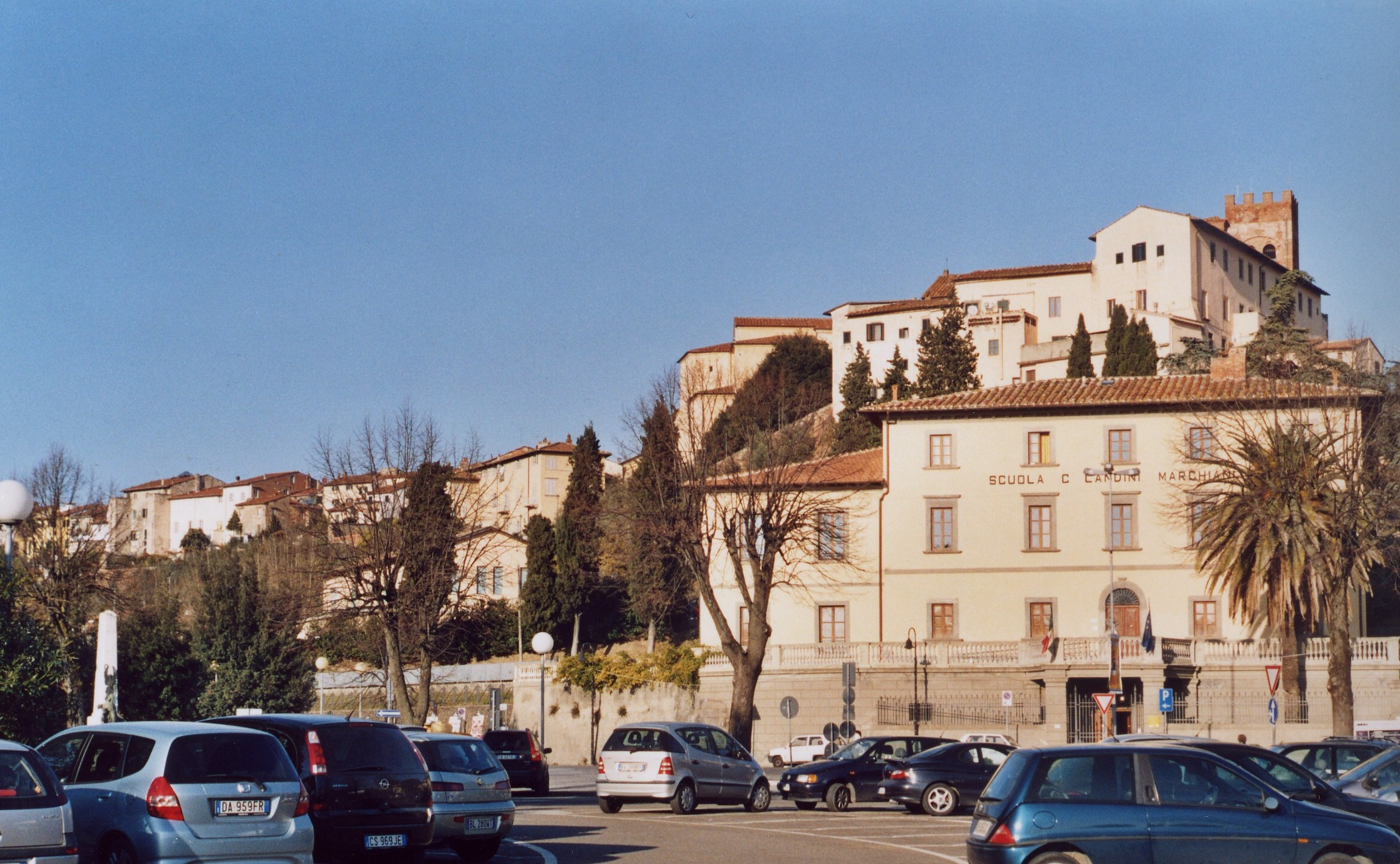 Fucecchio, Province of Florence, Italy. Panorama